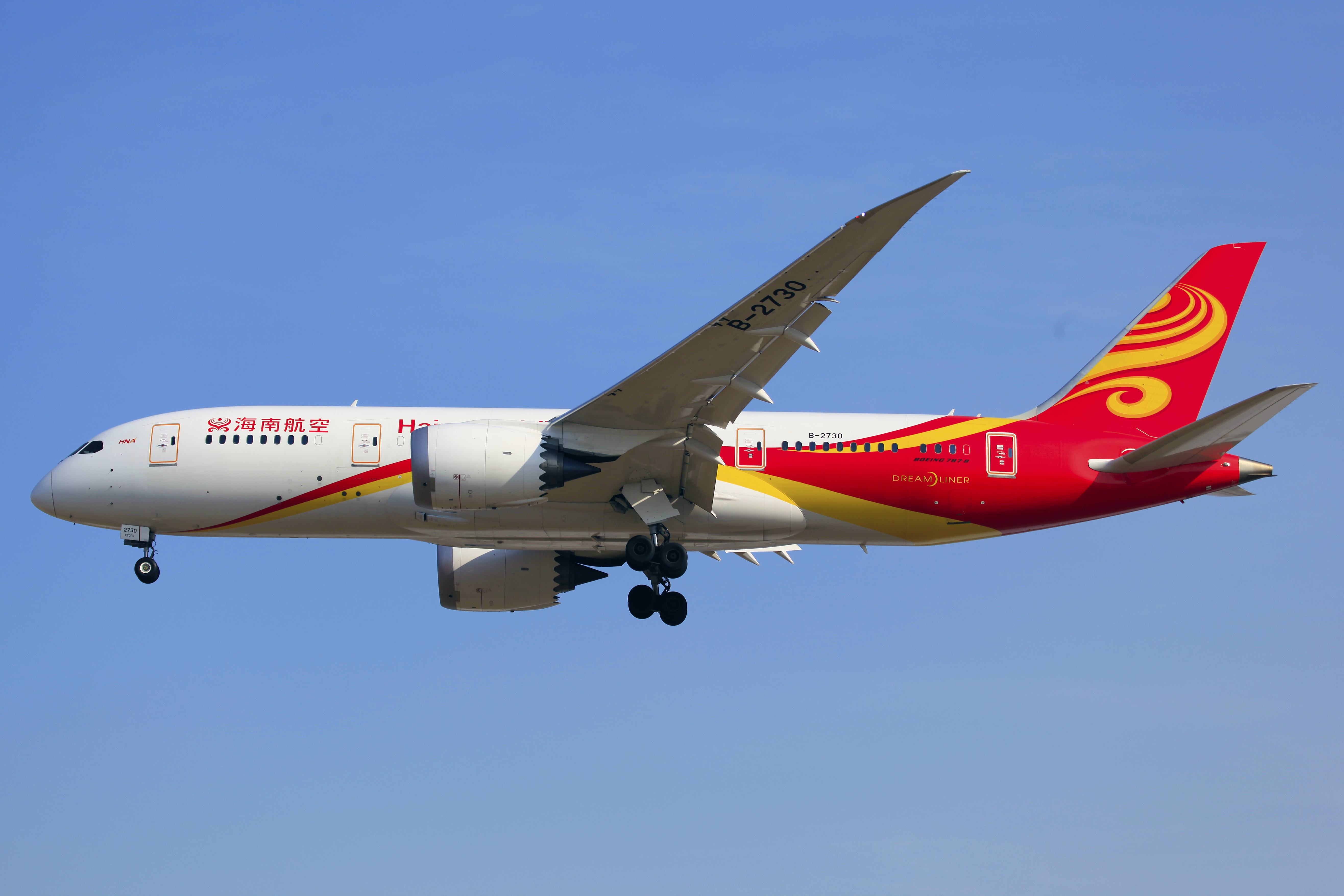 Hainan Airlines Boeing 787-8 Dreamliner Beijing Capital International Airport [PEK].